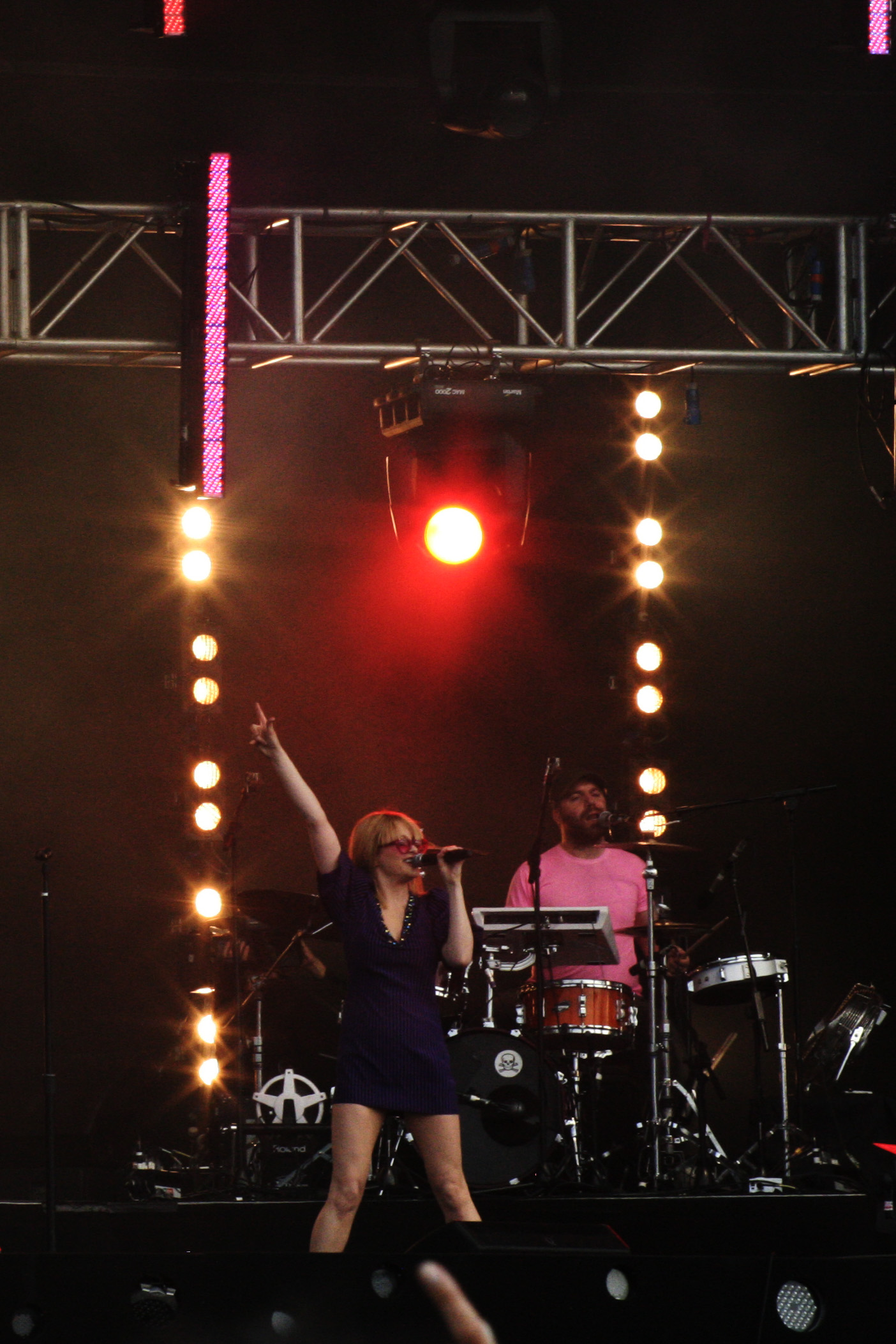 Goldfrapp at the Wireless Festival 2006 in London, Hyde Park